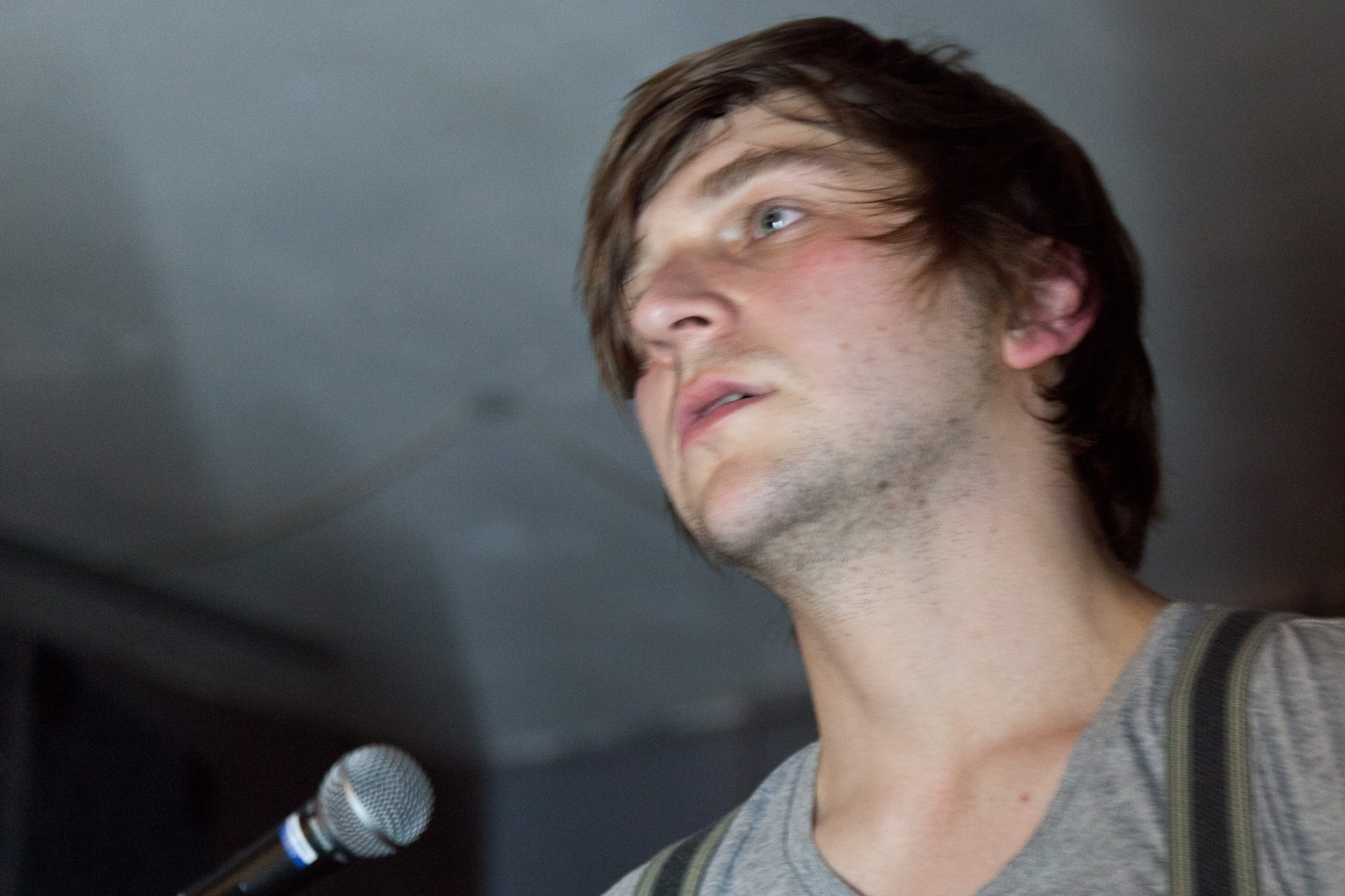 The german musician Pär Lammers during a concert in Cologne, Germany.